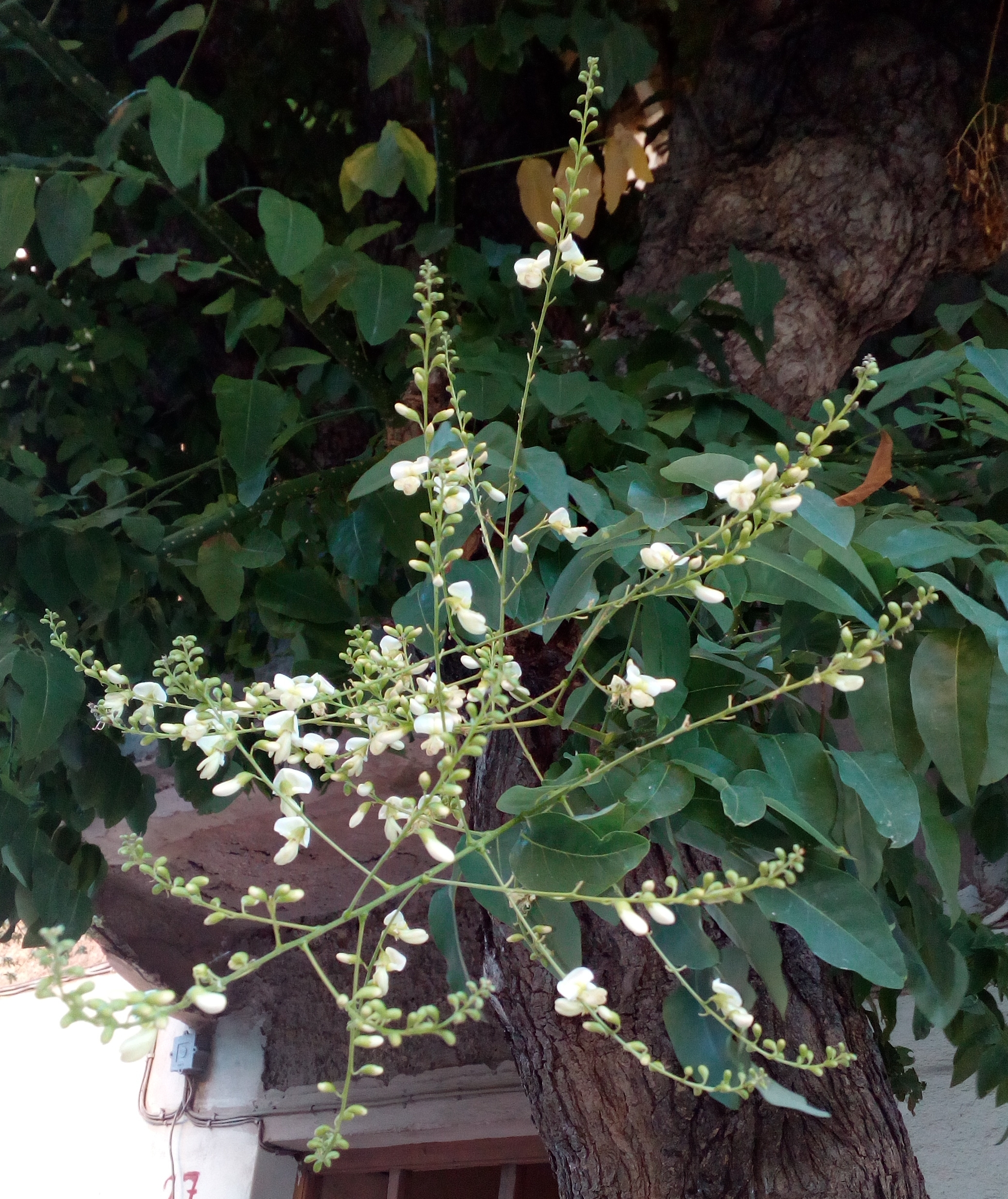 Sophora japonica